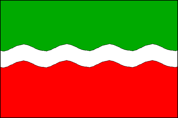 Municipal flag of Čenkov , District Příbram, Czech Republic